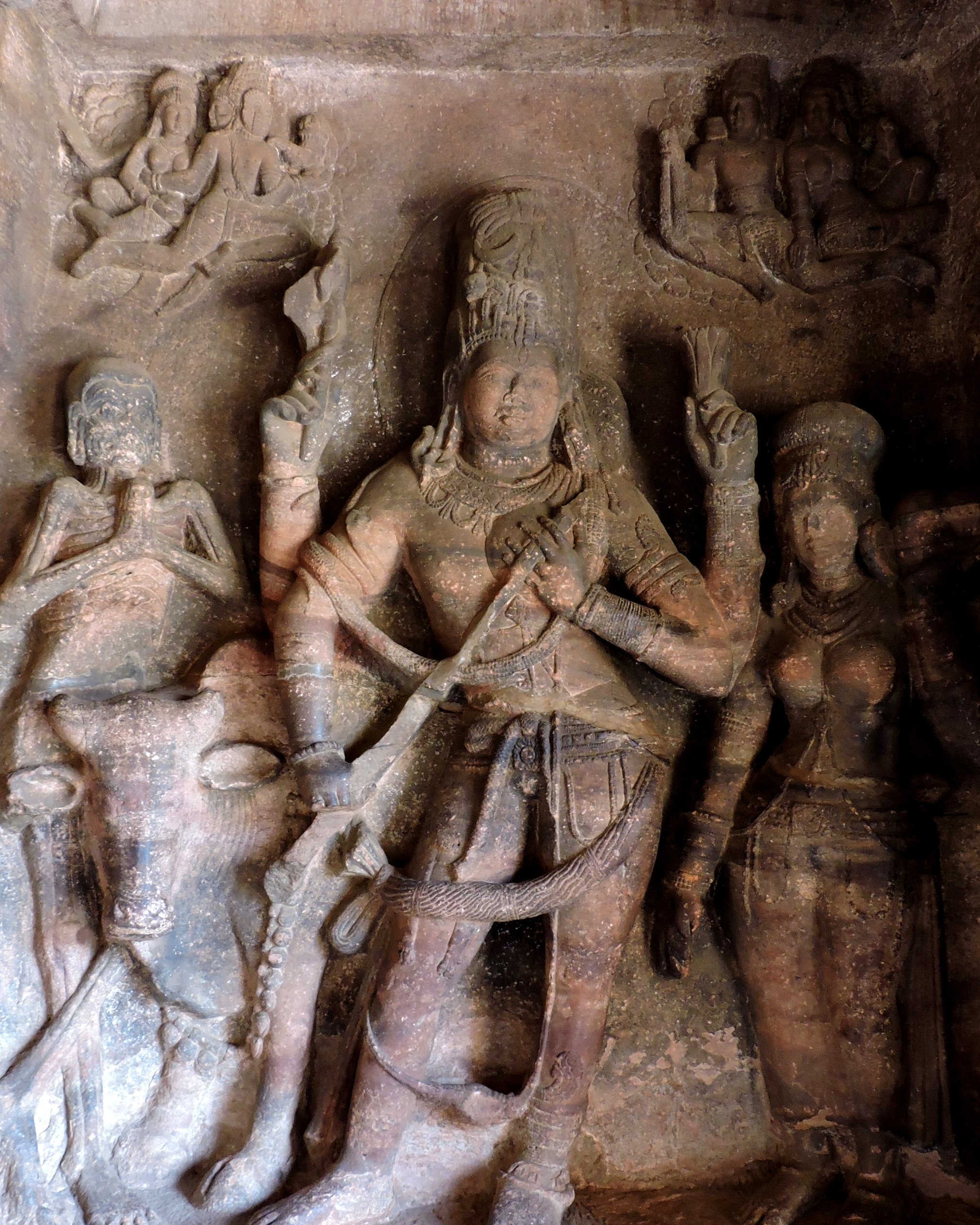 Ardhanarishwara (half-man half-woman) form of Shiva and his consort Parvati